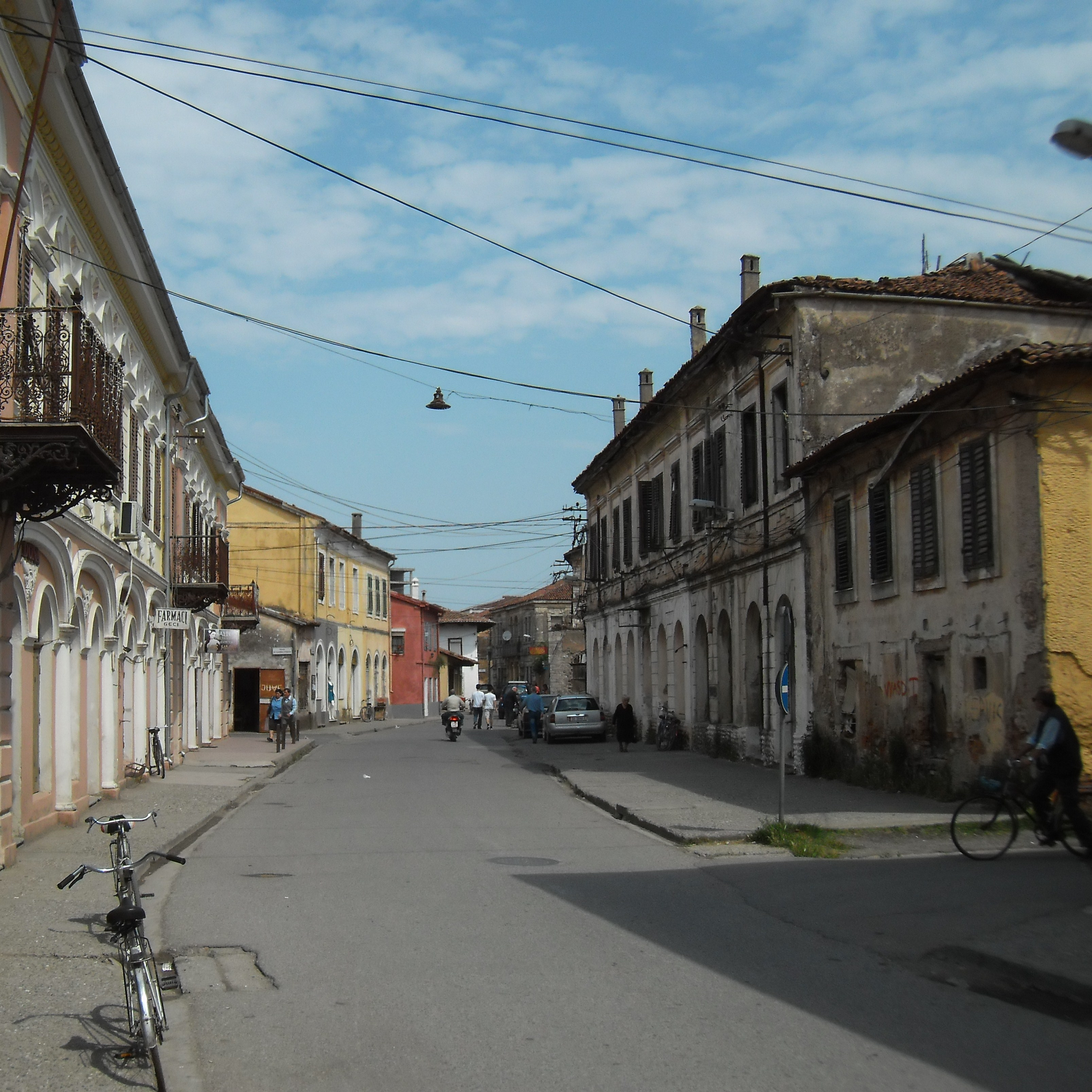 Street in Shkodër